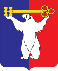 Norilsk (Krasnoyarsk kray), coat of arms